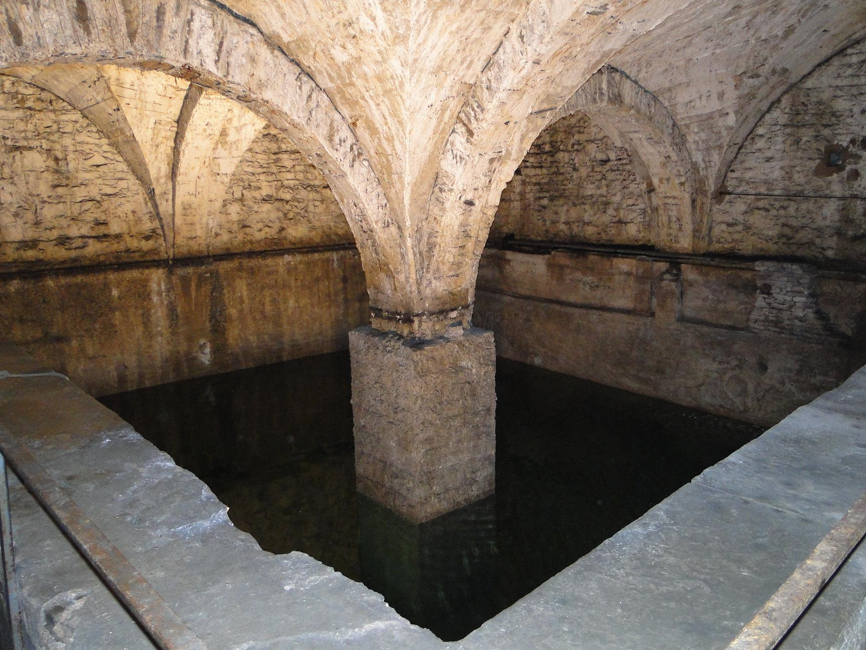 Lantro Fountain, Bergamo, Italy